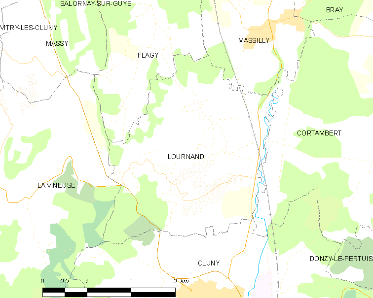 Map of French municipality